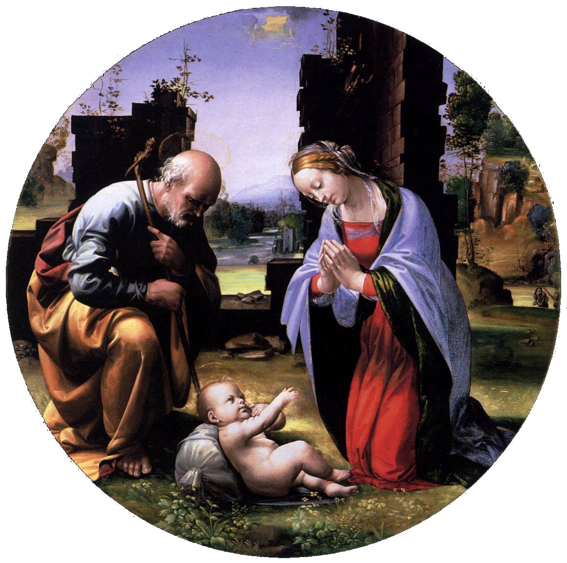 Adoration of the Child